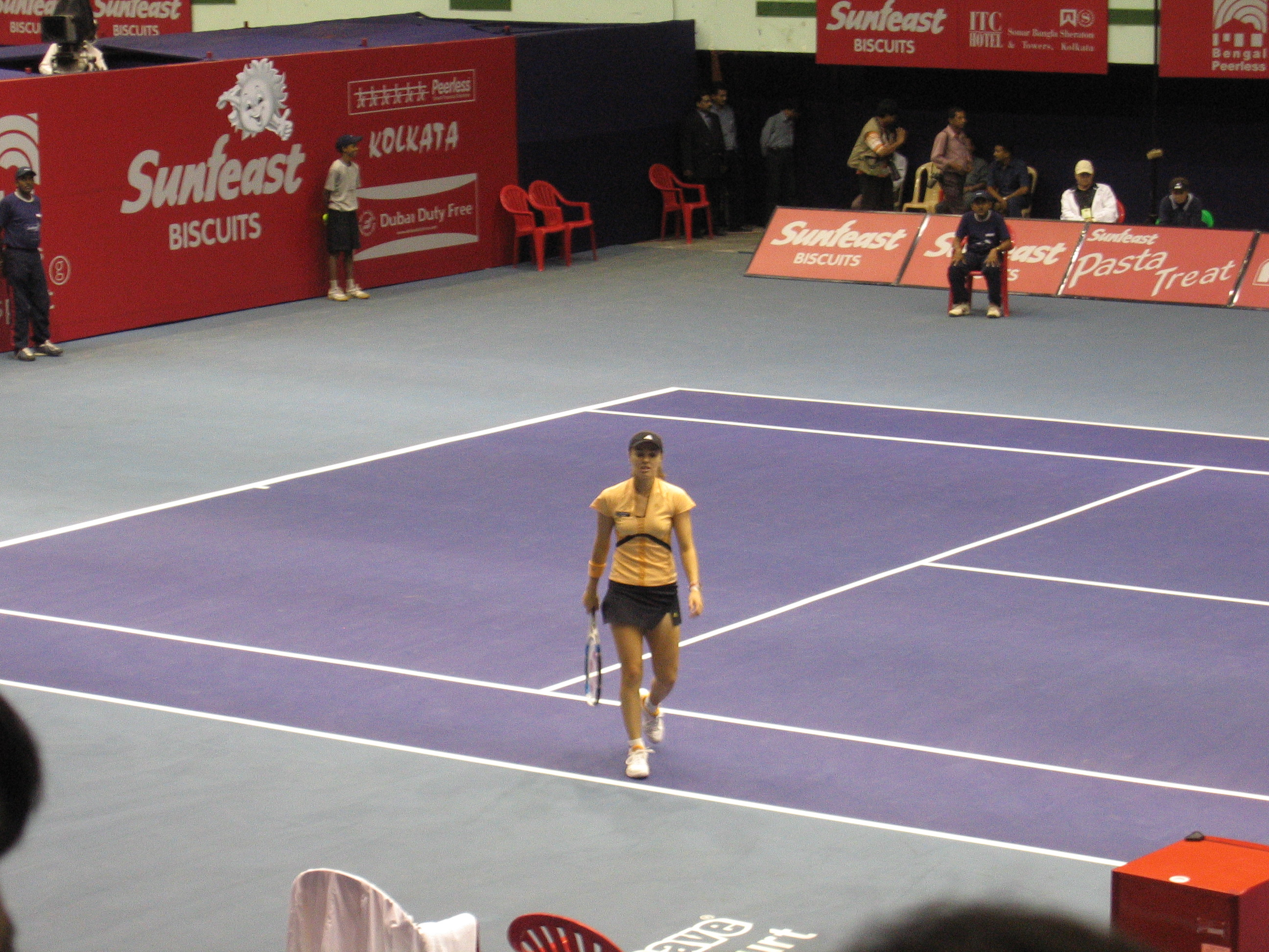 Martina Hingis at the Sunfeast Open 2006 in Kolkata